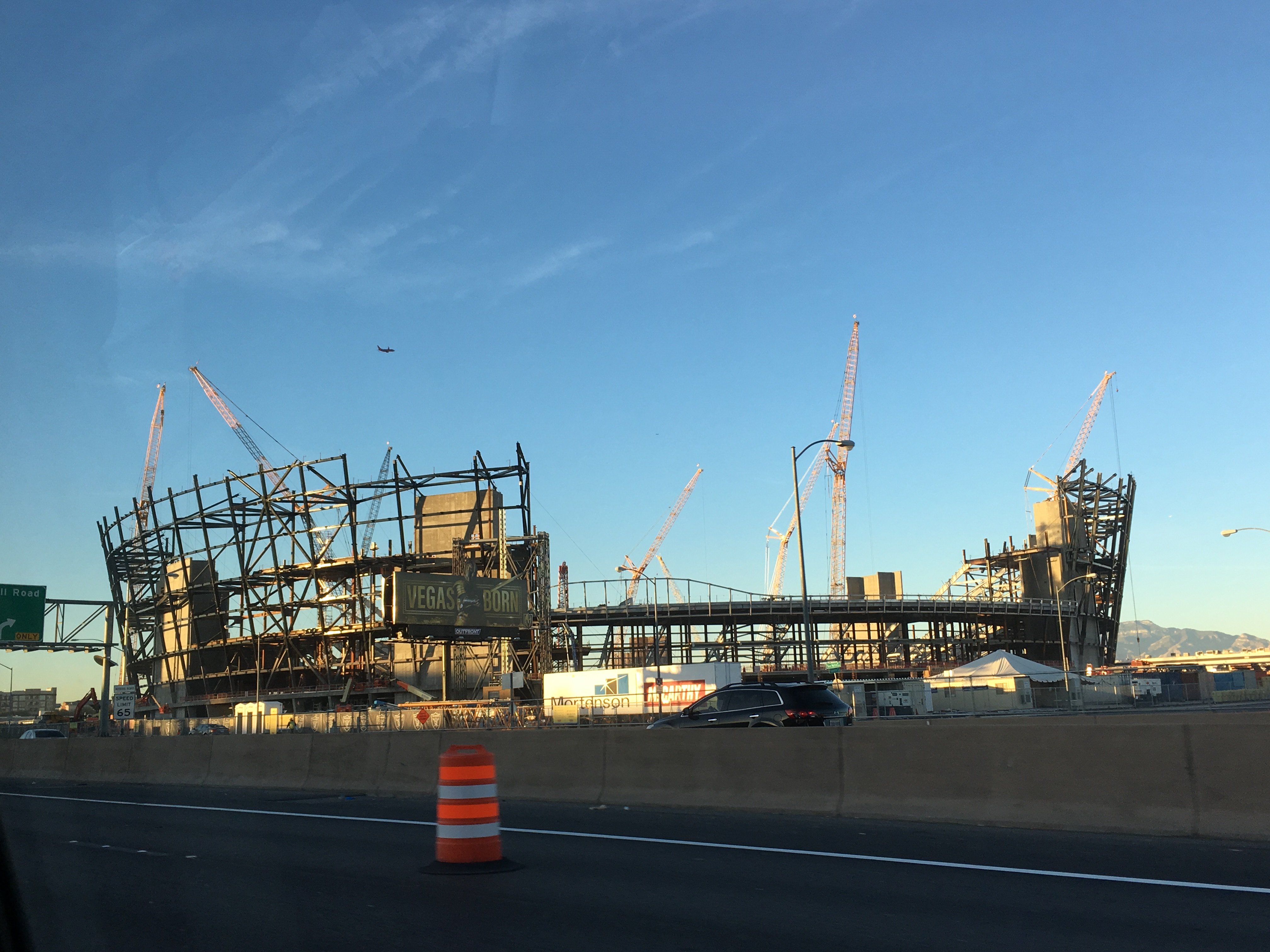 Construction work on the Las Vegas Stadium as of mid-December 2018.